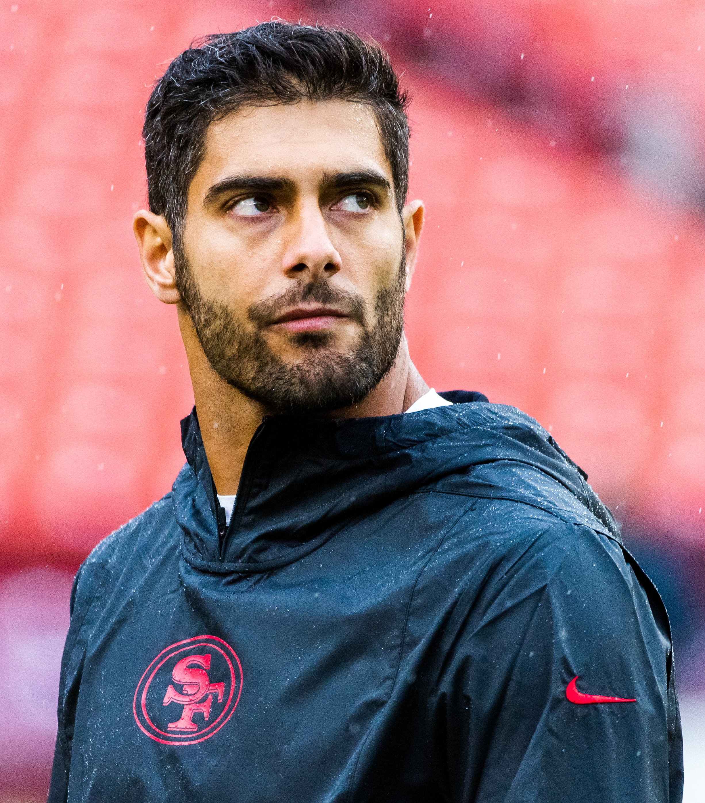 IN 2019